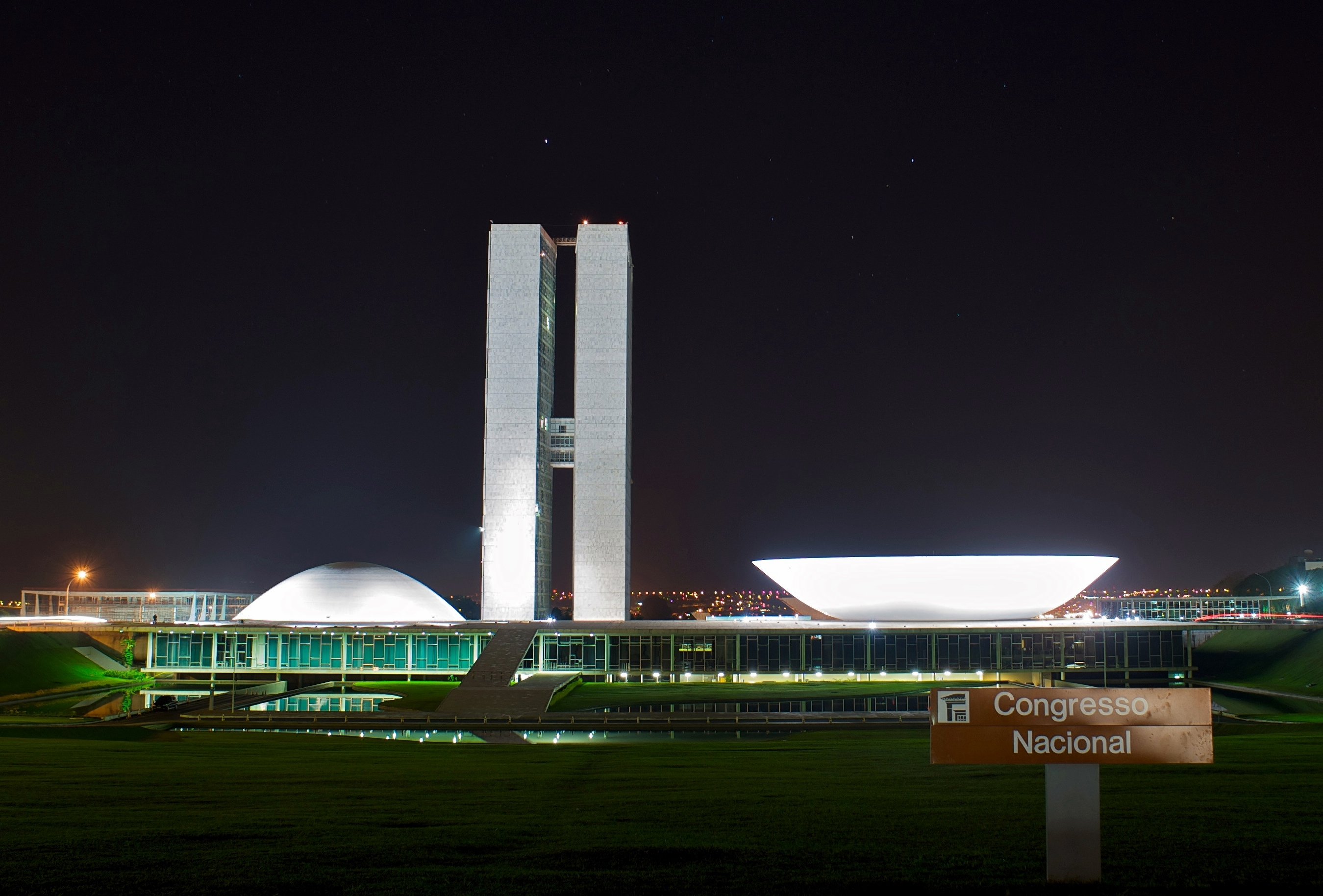 National Congress of Brazil, Brasília. Congresso Nacional Camera: Nikon D700 License on Flickr (2010-12-27): CC-BY-SA-2.0 Flickr tags: AF Nikkor 28mm f/2.8D, brasilia, congressonacional, longexposure, brazil, d700